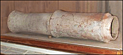 Petra. Terracotta pipes.